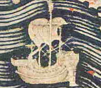 close up of a Somali Ship from the historical Fra Mauro map File:Fra Mauro Somalia.jpg